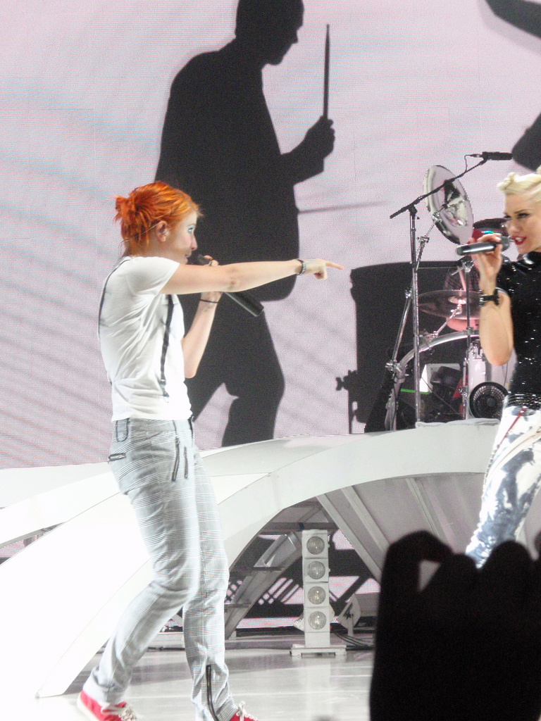 Paramore and No Doubt performing during the Summer Tour 2009 in General Motors Place in Vancouver.